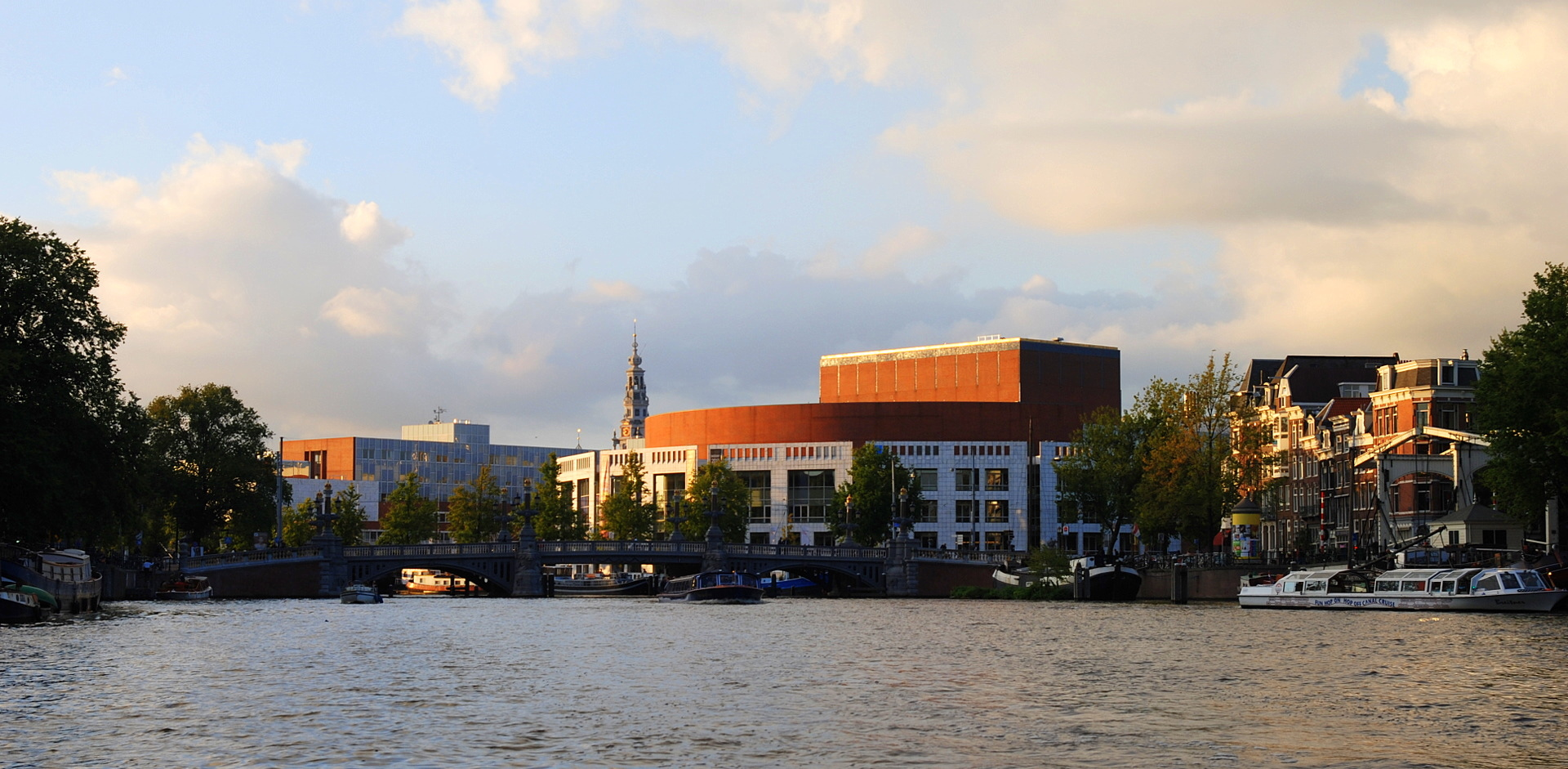 View from on the Amstel river towards "Blauwbrug" (Blue bridge) and the "Stopera": the Amsterdam opera building combined with the Amsterdam City Hall. The church spire in the background is the church tower of the "Zuiderkerk".